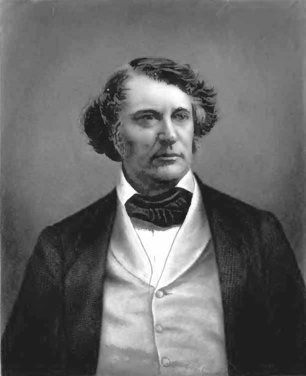 Portrait engraving of Charles Sumner, Massachusetts senator